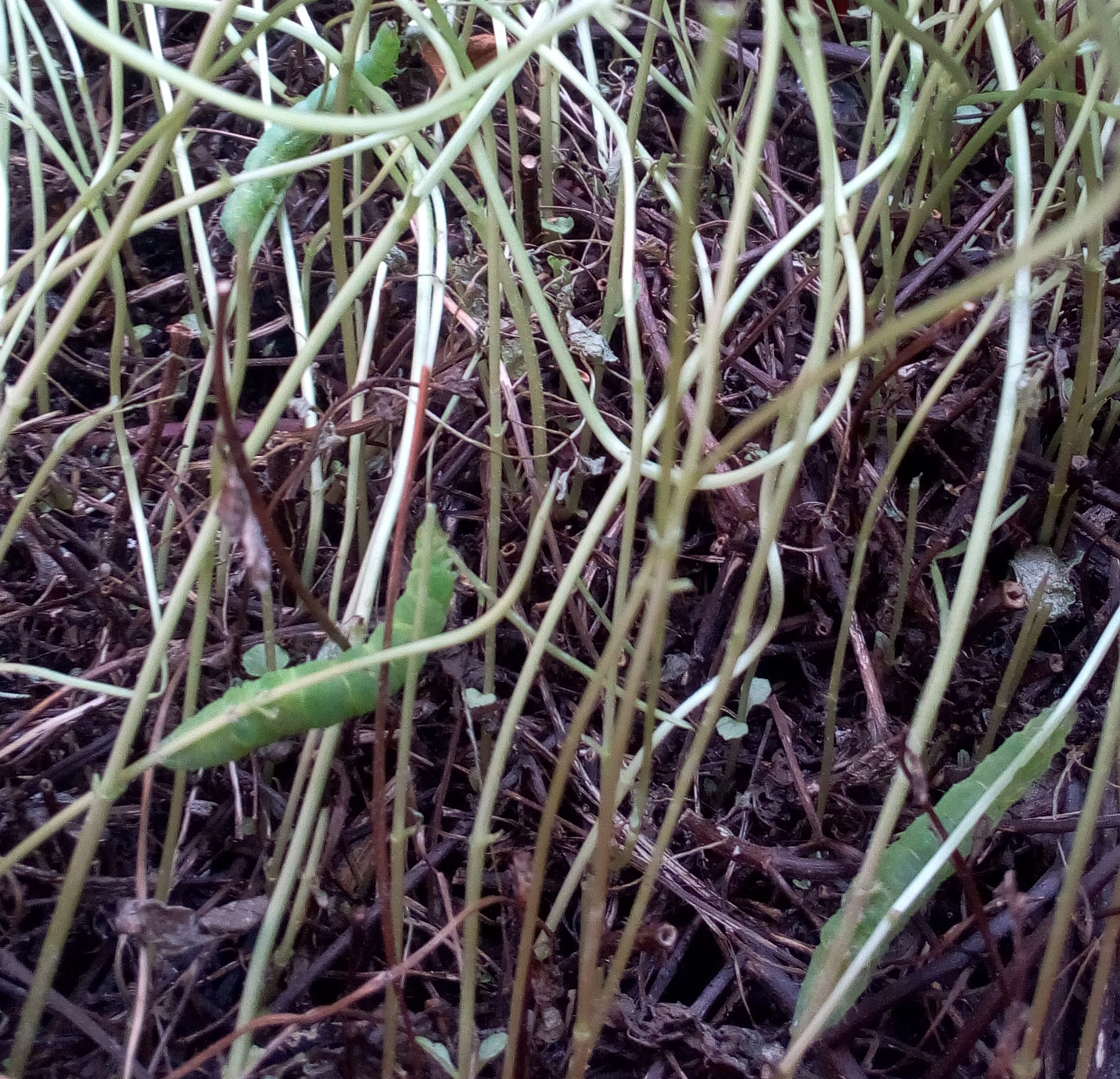 Pot of mint eaten by caterpillars (green) of Ctenoplusia accentifera in one night, shortly before the manufacture of cocoons by these caterpillars ; after a partially scorching summer.